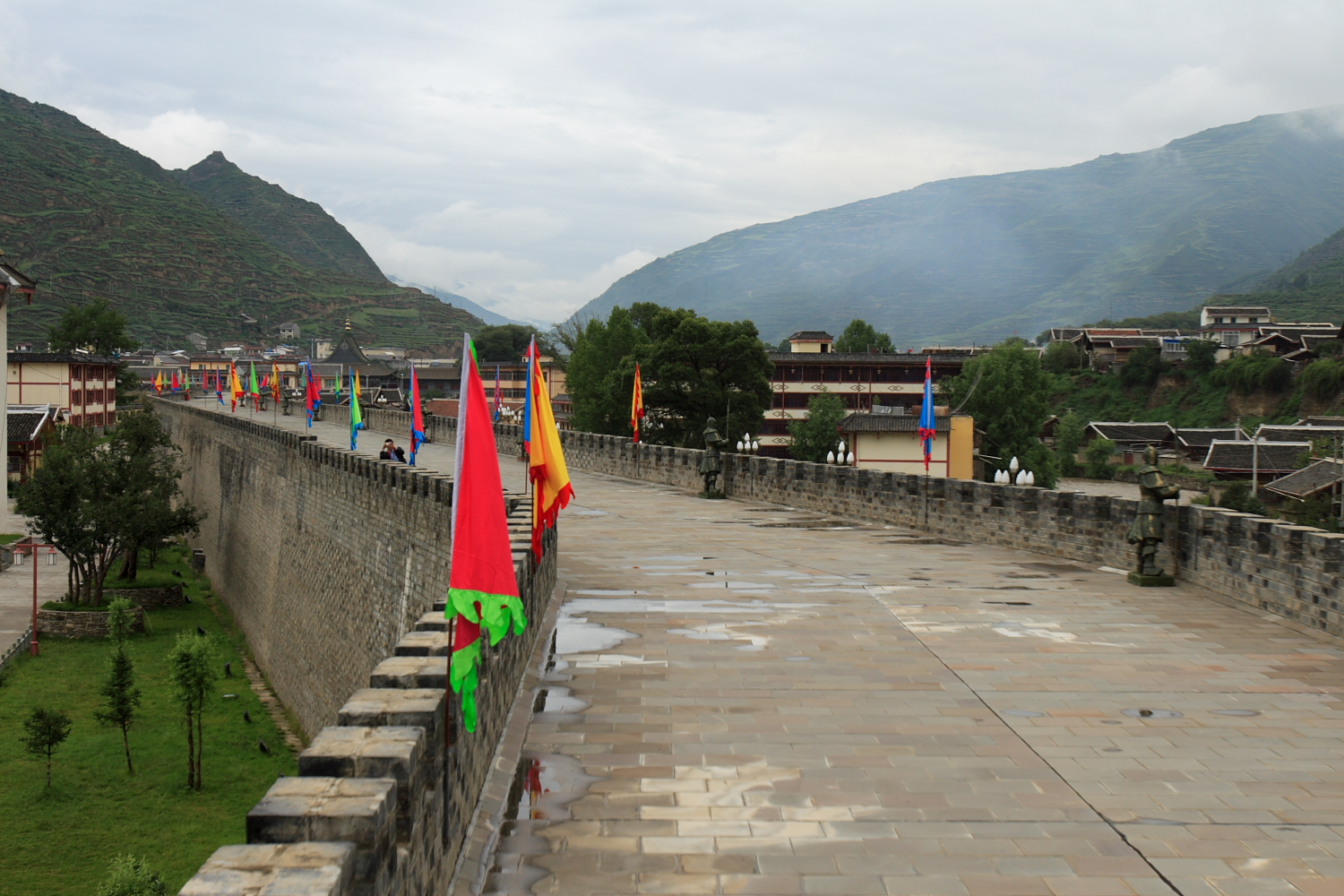 Songpan Wall, Sichuan